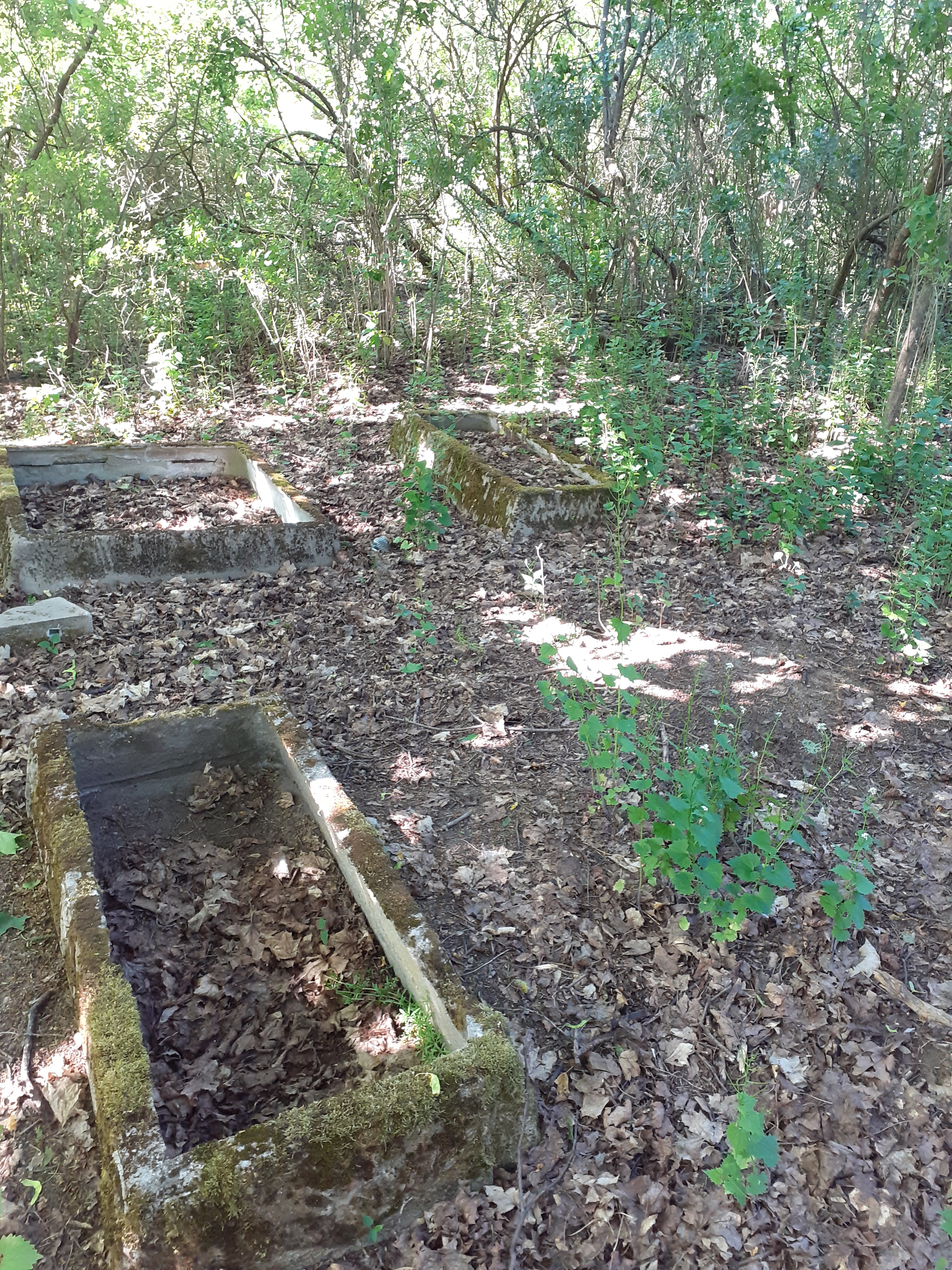 Zaniedbany cmentarz ewangelicki w Małych Łunawach